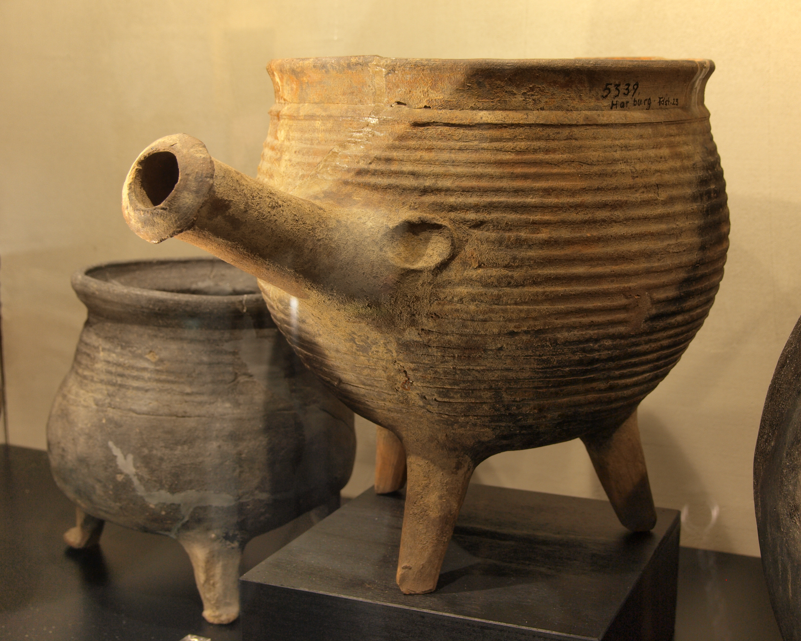 Two coocking pots. Left a "Grapen" from Hamburg circa 1200-1400 A.D. Right a pipkin "Stielgrapen" with handle from Hamburg-Harburg, circa 16th/17th Century A.D. At Archäologisches Museum Hamburg